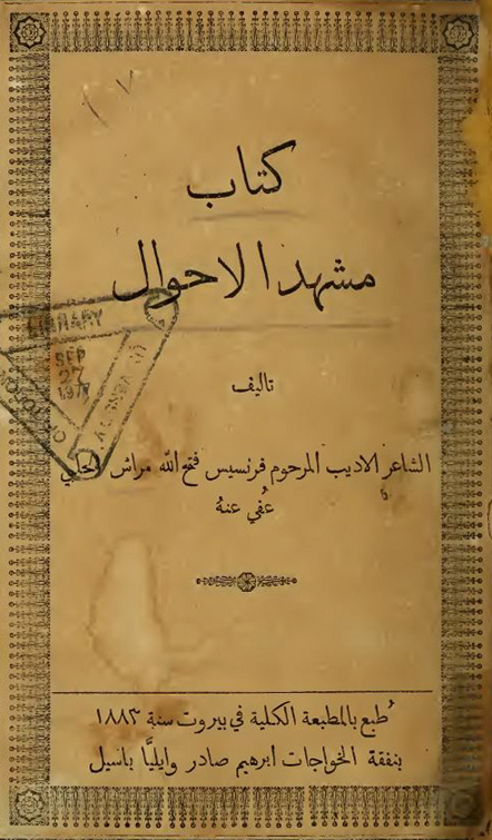 Work by Syrian writer Francis Marrash.